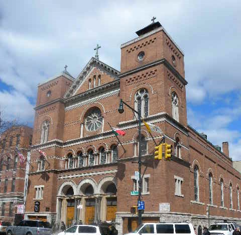 Looking north across 187th St in Little Italy, at Church of Our Lady of Mount Carmel on a mostly sunny morning.